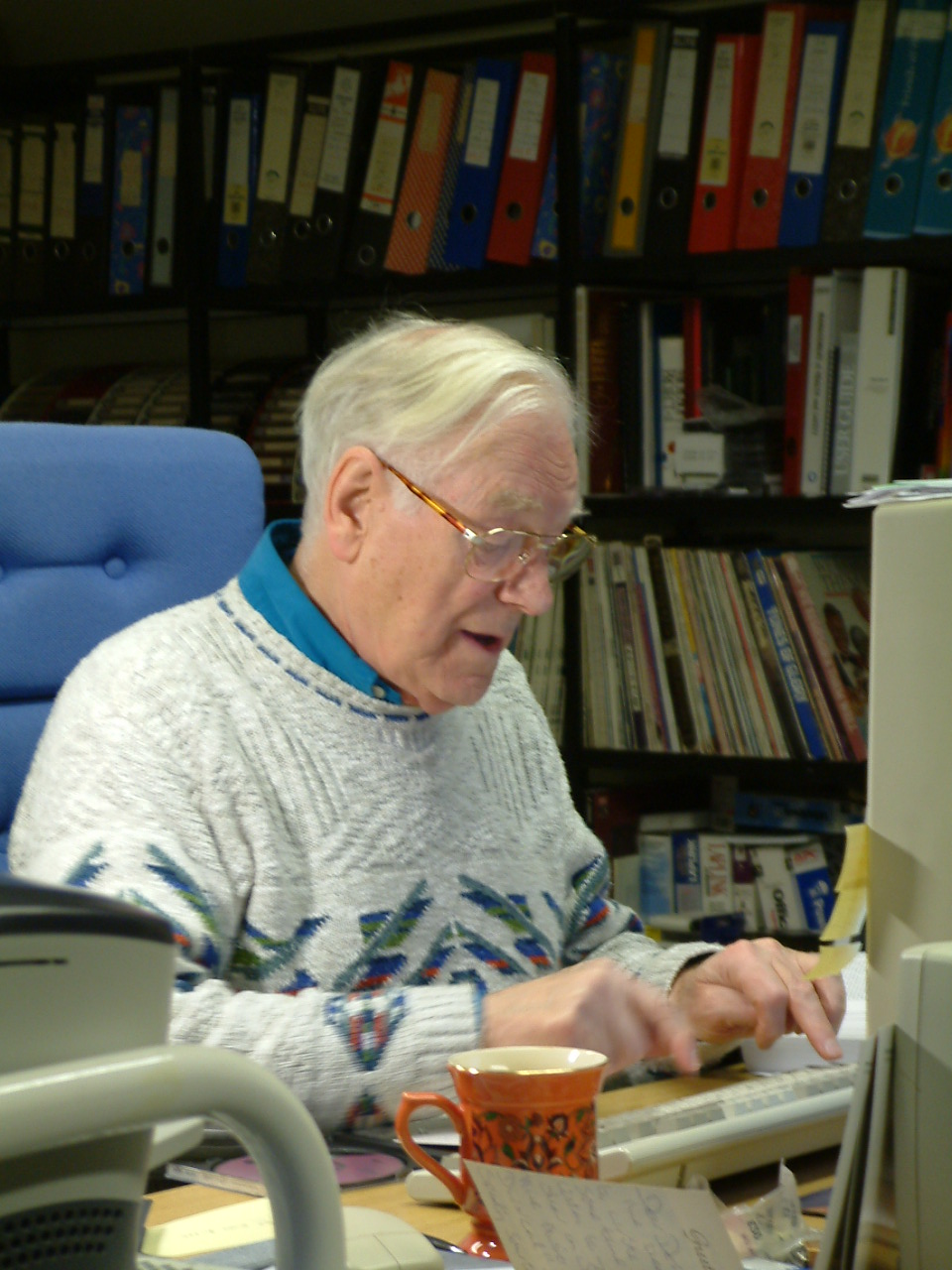 BBC disk jockey Desmond Carrington in his studio